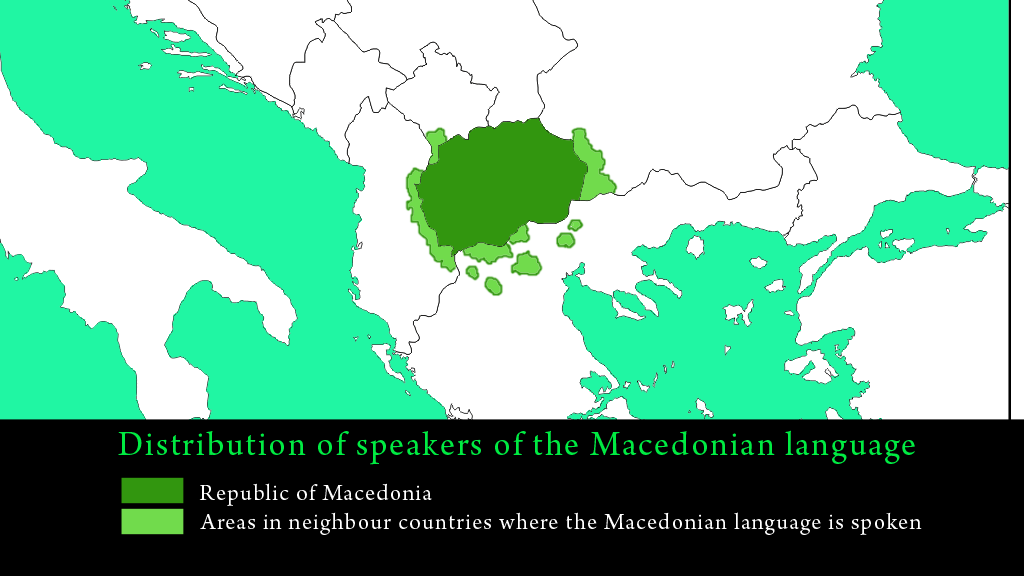 Areas with Macedonian minorities in the neighboring countries of the Republic of Macedonia, according to various sources